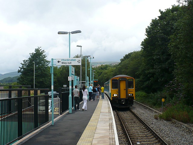 Rogerstone railway station Original description: Rogerstone Station An Arriva train for Cardiff Central arriving at Rogerstone Station.